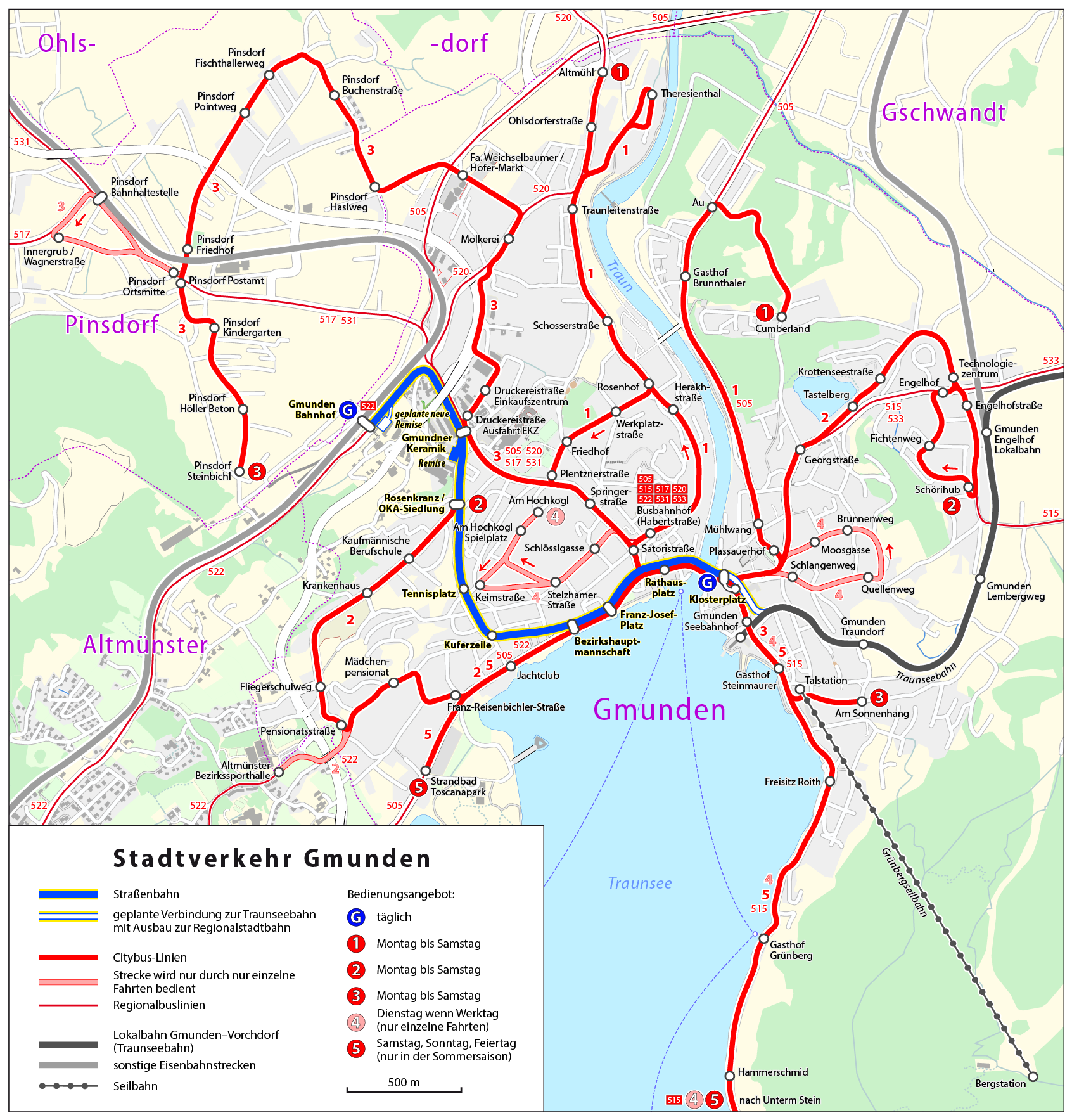 Map of the Gmunden tramway and Citybus network